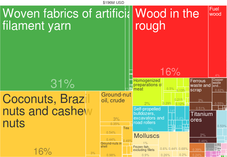 2014 Gambia Products Export Treemap